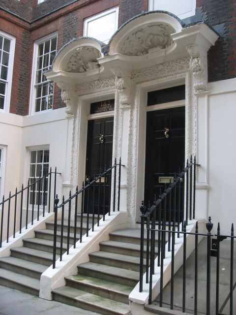 Ornate doorways of 1 & 2 Laurence Pountney Hill, EC4